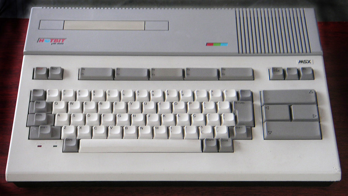 Brazilian Z80 MSX computer from the 1980s.